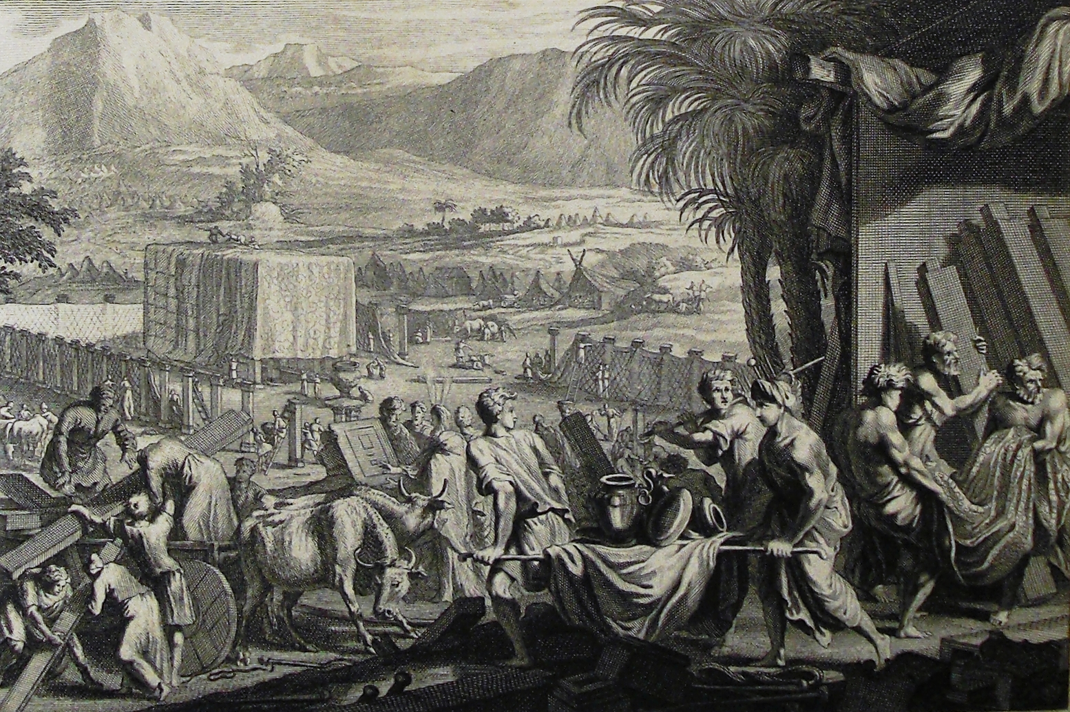 A print from the Phillip Medhurst Collection of Bible illustrations in the possession of Revd. Philip De Vere at St. George’s Court, Kidderminster, England.